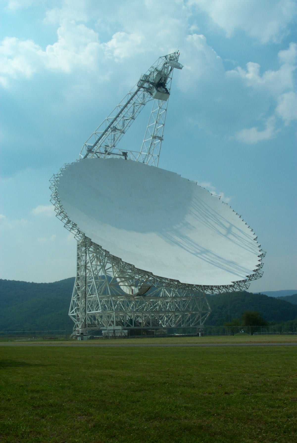 Picture of the Green Bank Telescope